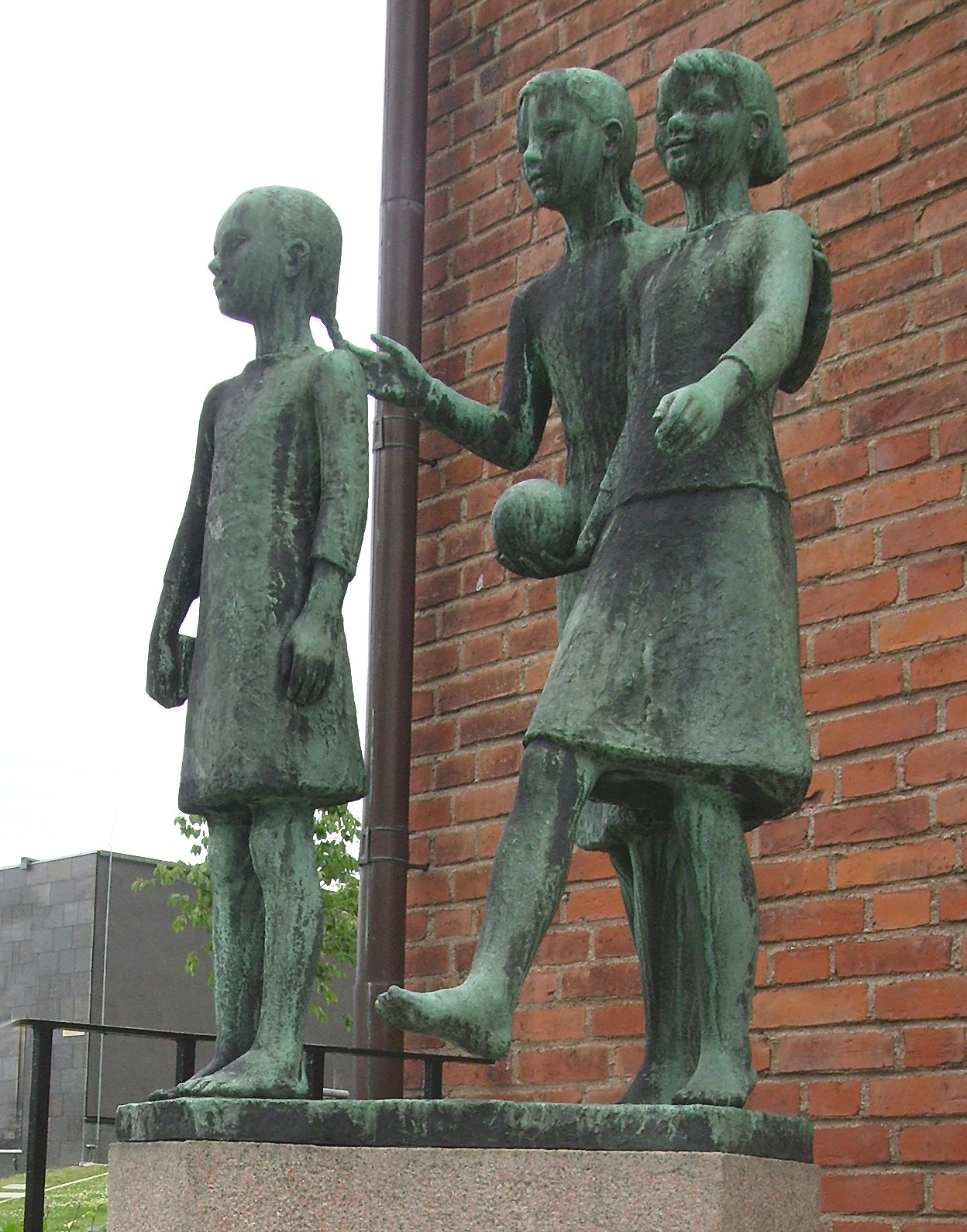 Picture of Tre flickor, sculpture in Gothenburg